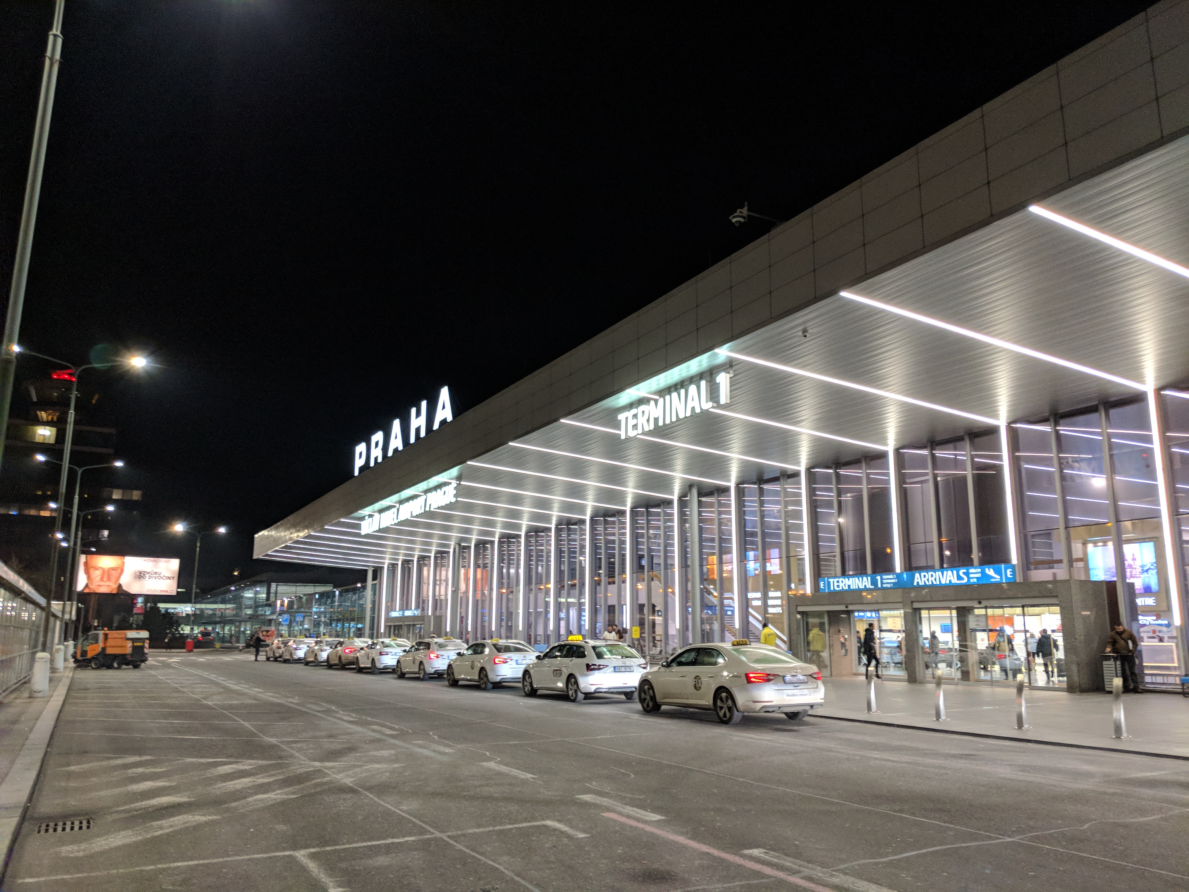 Prague Airport Terminal 1 - Arrivals Hall from the outside